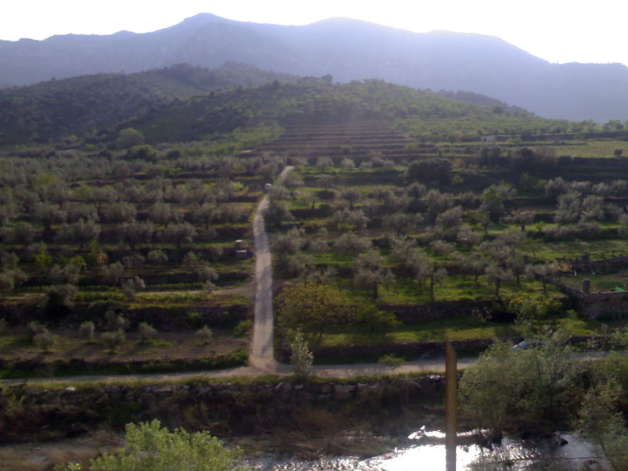 Hillside of Priorat, Catalonia, Spain.